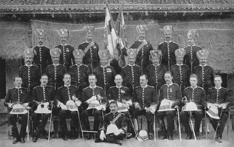 Officers of 1st Brahmans (later 4/1st Punjab, British Indian Army), 1912. Published in Qureshi, Maj MI. (1958). The First Punjabis: History of the First Punjab Regiment, 1759-1956.